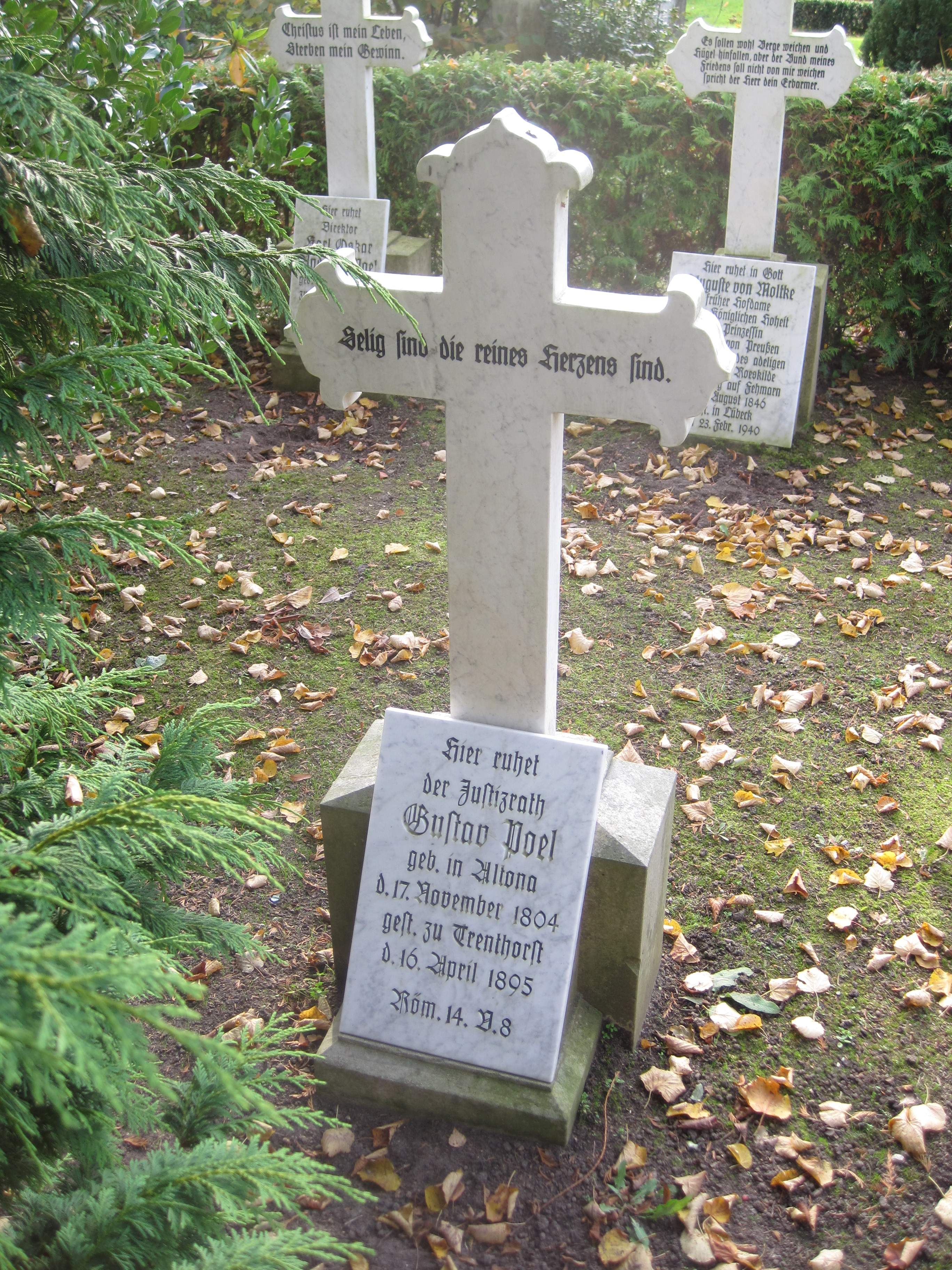 Grave of Gustav Poel (1804-1895), Mayor and honorary citizen of the town of Itzehoe, in Klein Wesenberg.